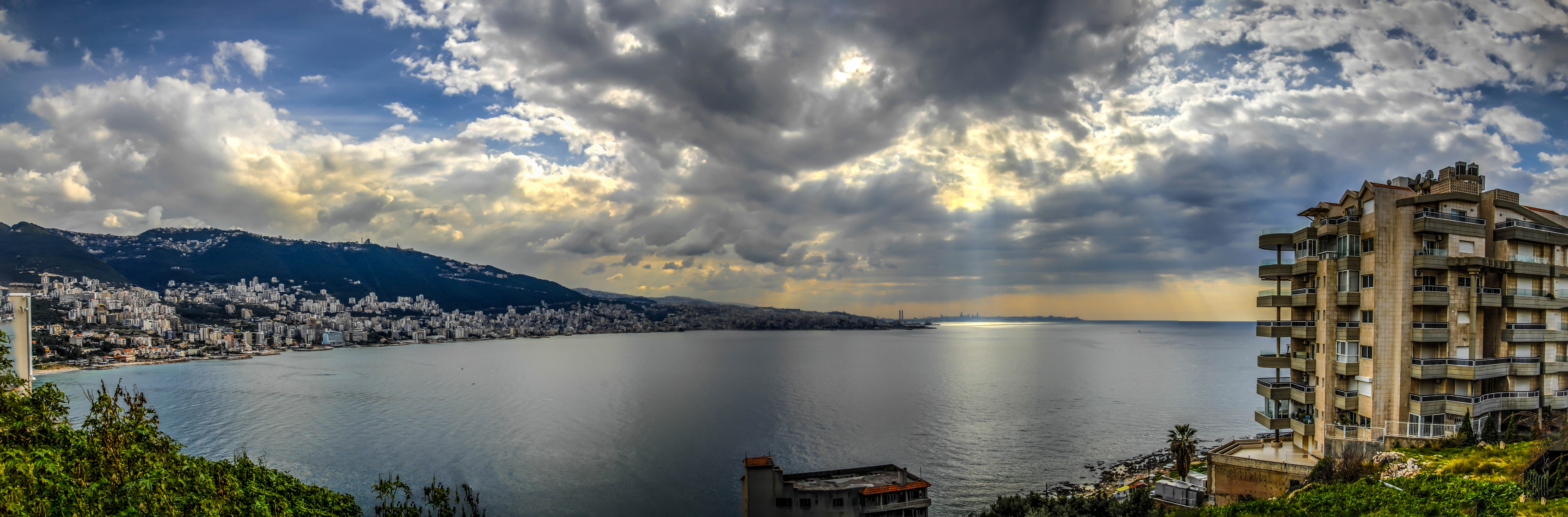 Jounieh Bay From Tabarja